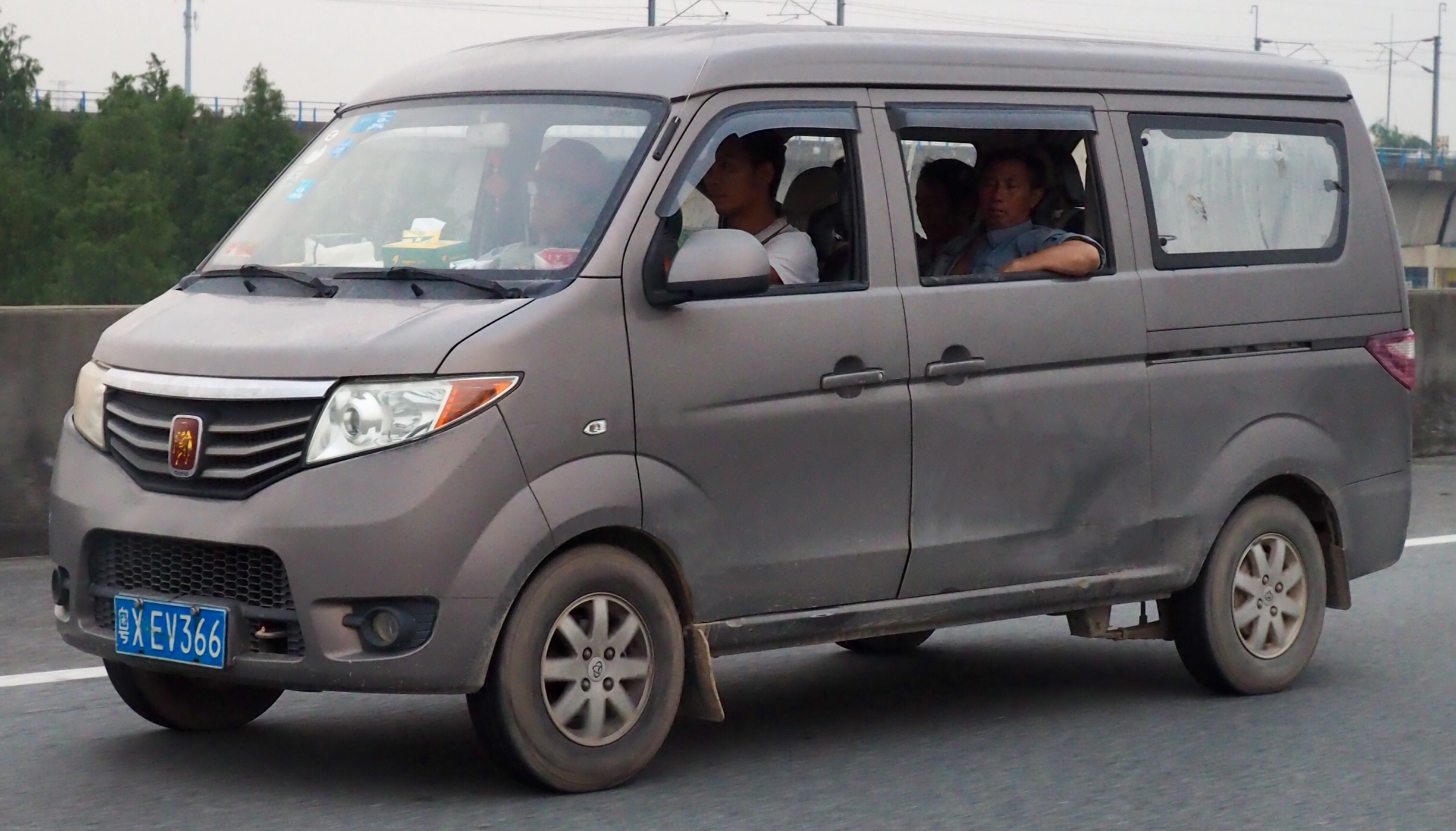 A 2010 Chana Taurustar taken in Nanhai District, Foshan, Guangdong province, China. 中文（中国大陆）: 一辆2010年的长安金牛星，摄于中国广东省佛山市南海区。